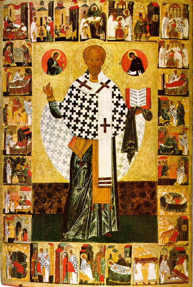 St. Nicholas and scenes from his life